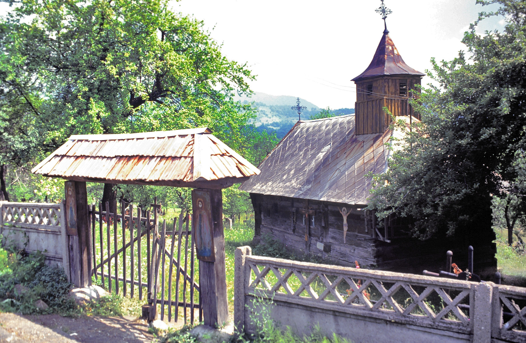 Wooden church Sf. Arhangheli Mihail şi Gavril in Şurdeşti, Maramureş